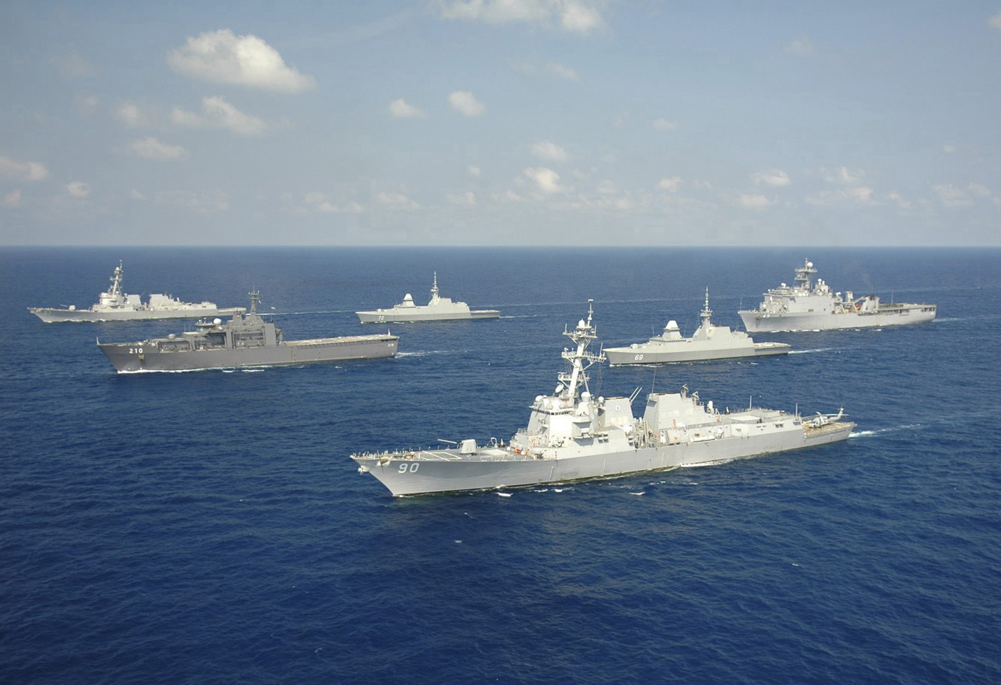 090615-N-0000X-283 SOUTH CHINA SEA (June 15, 2009) The Republic of Singapore Navy frigates RSS Stalwart (72) and RSS Intrepid (69) and tank landing ship RSS Endeavour (210) maneuver in formation with the dock landing ship USS Harpers Ferry (LSD 49) and guided-missile destroyers USS Chafee (DDG 90) and USS Chung-Hoon (DDG 93) during the at-sea phase of Cooperation Afloat Readiness and Training (CARAT), a series of bilateral exercises held annually in Southeast Asia to strengthen relationships and enhance the operational readiness of the participating forces. (U.S. Navy photo/Released)